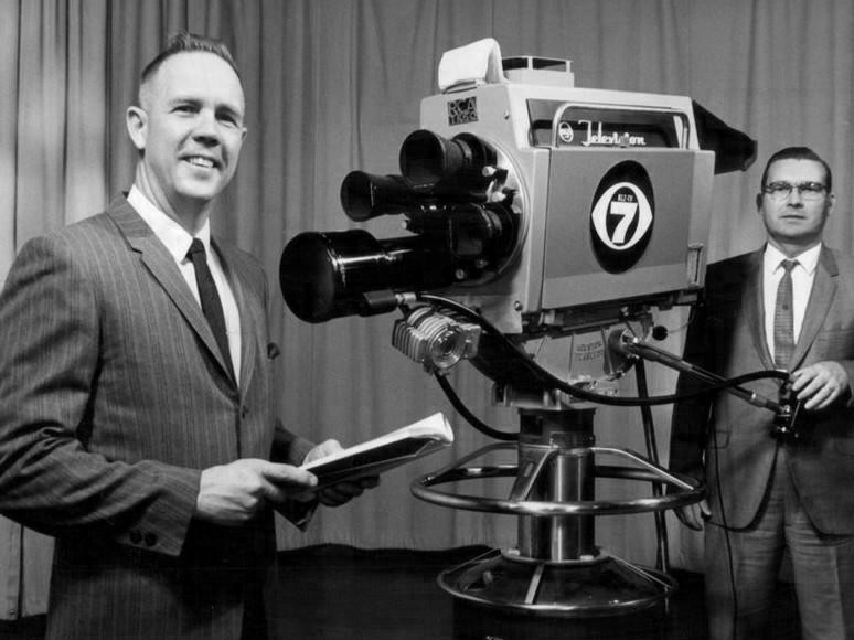 Photo of the taping of a religious public affairs program at KLZ-TV, Denver. The station is no longer a CBS affiliate, but and ABC one and has changed its call letters to KMGH-TV. Pictured are the Reverend Bob McPherson (in front of the camera) and the Reverend James Ennis (behind the camera). The camera shown in the photo is an RCA TK-60.